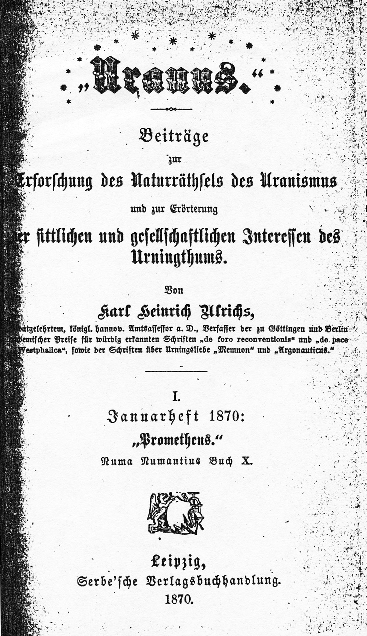 Cover of the journal Uranus authored by Karl Heinrich Ulrichs and published in 1870.